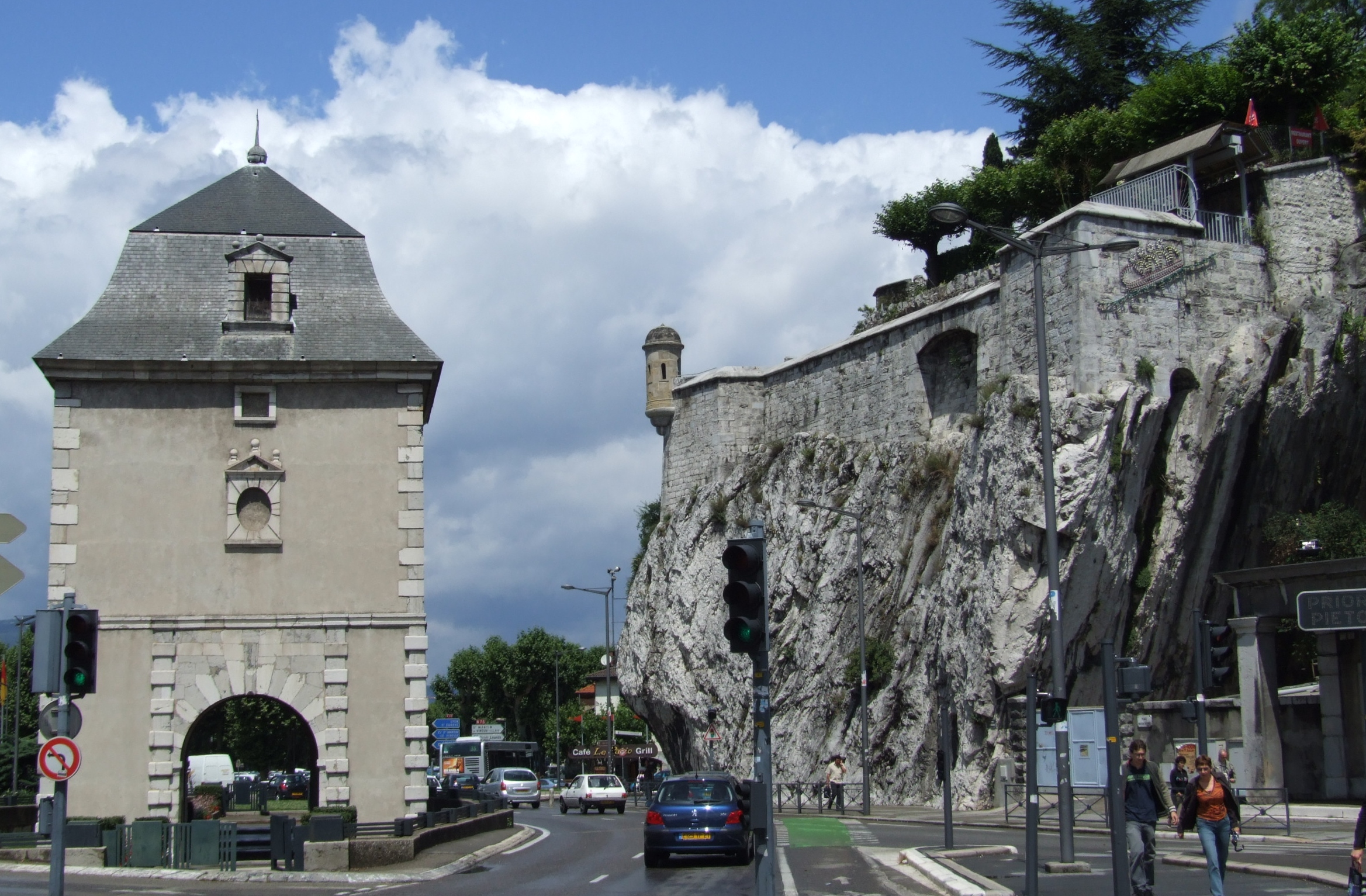 Grenoble, France, FRANCE